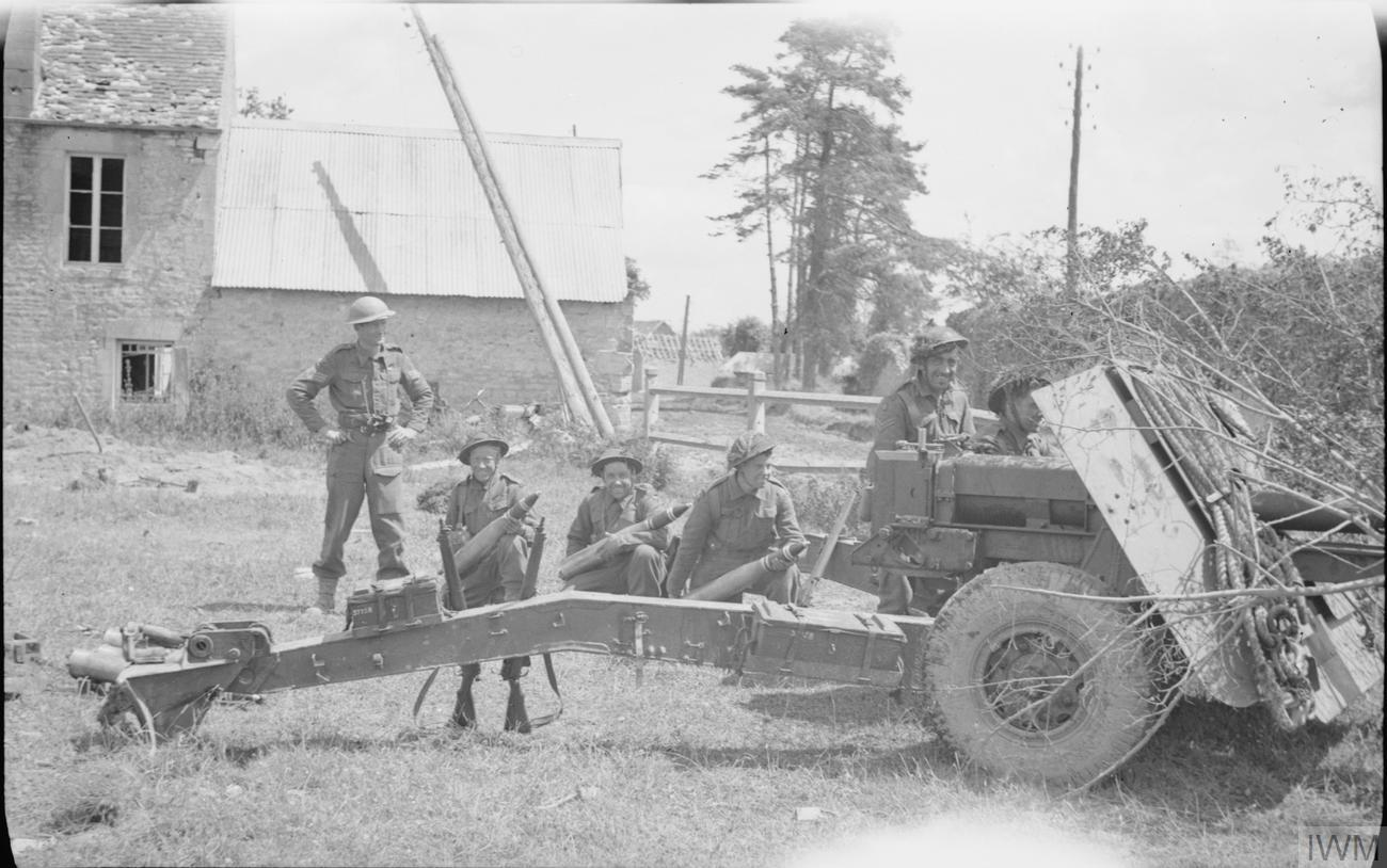 The British Army in the Normandy Campaign 1944 A 17-pdr anti-tank gun in position at Norrey-en-Bessin during Operation 'Epsom', 27 June 1944. The crew had just destroyed a Panther tank during a German counter-attack.